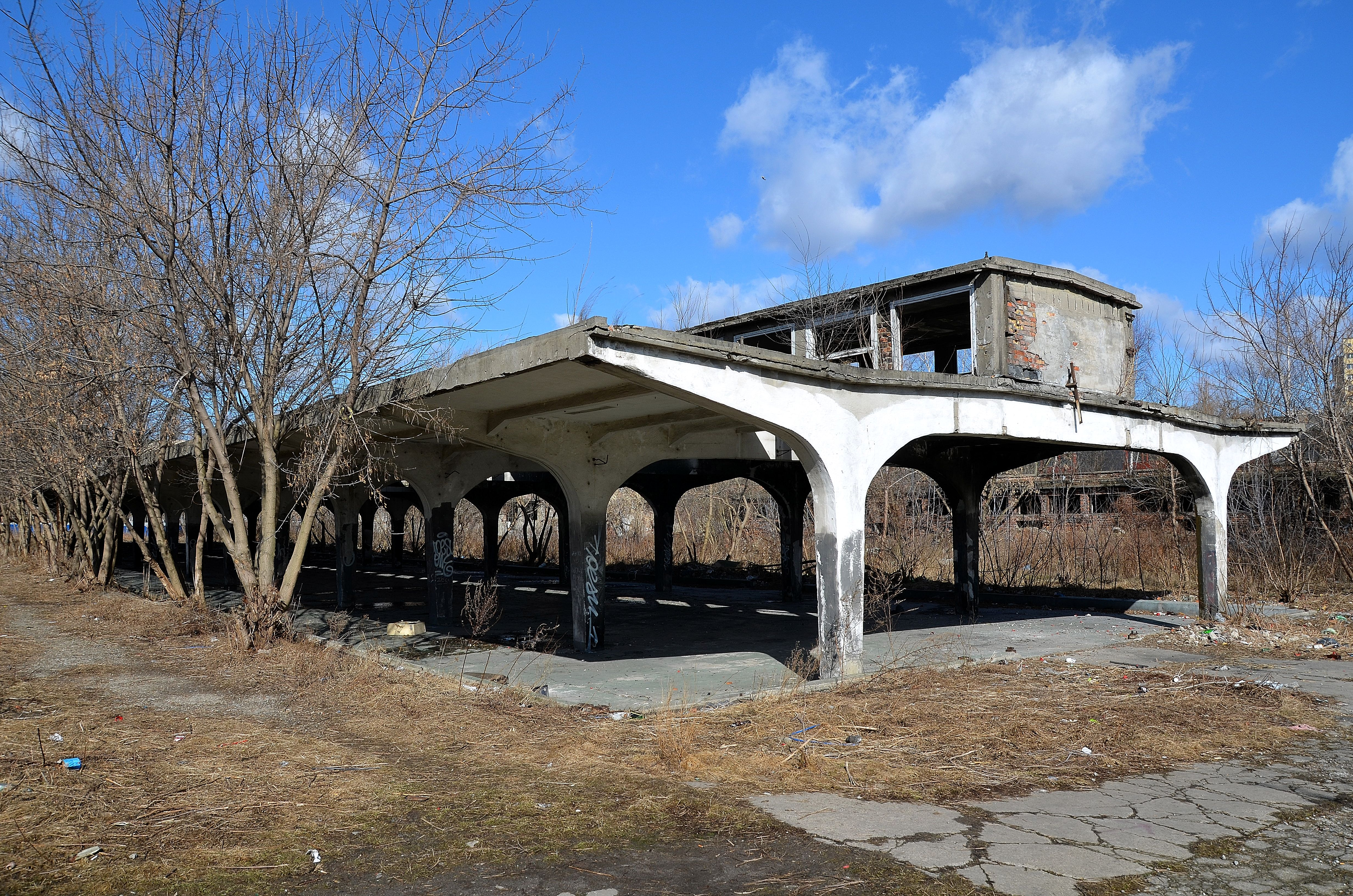 Ruins of the Praga slaughterhouse in Warsaw (Sierakowskiego/Wrzesińska Street)